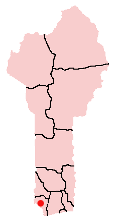 Lokossa, Benin Location Map; created with the GIMP. Made by User:Acntx.